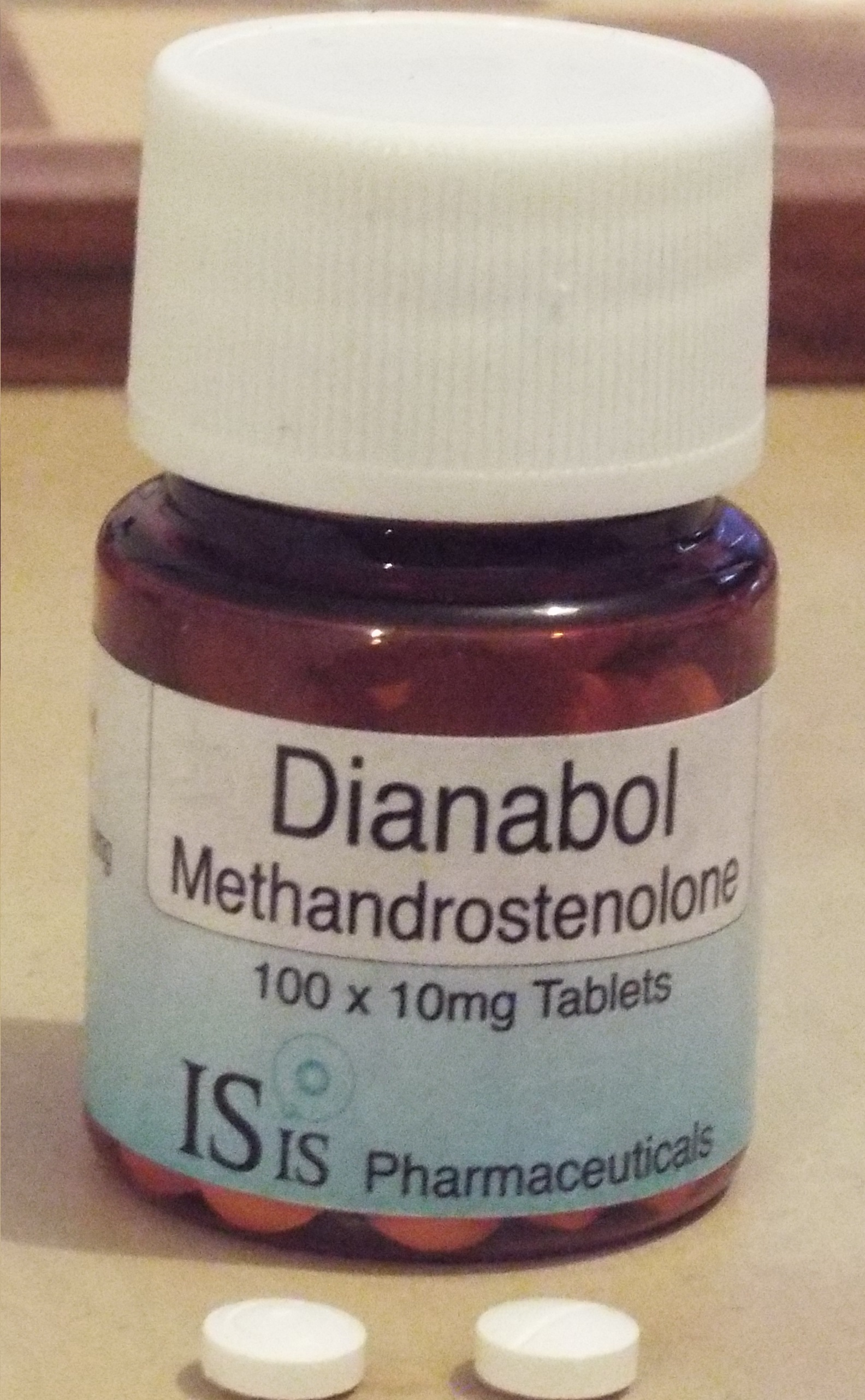 Methandrostenolone pills.